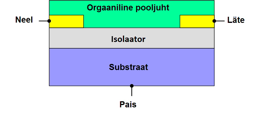 OFETi ehituse eesti keelne kirjeldus.